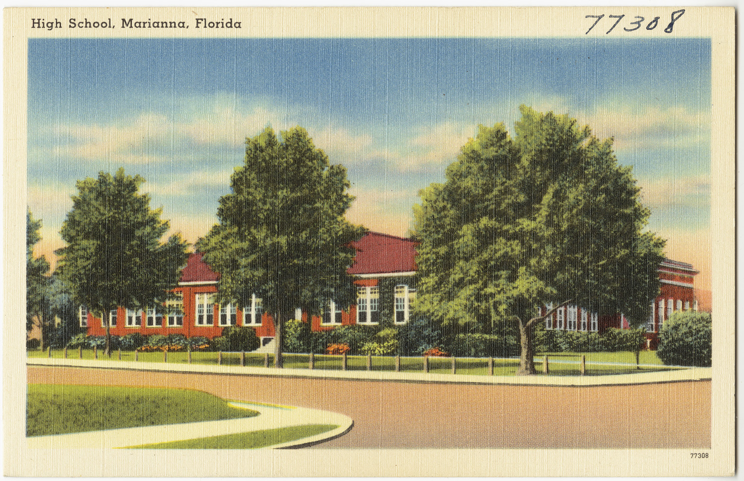 File name: 06_10_007846 Title: High school, Marianna, Florida Date issued: 1930 - 1945 (approximate) Physical description: 1 print (postcard) : linen texture, color ; 3 1/2 x 5 1/2 in. Genre: Postcards Subject: Schools Notes: Title from item. Collection: The Tichnor Brothers Collection Location: Boston Public Library, Print Department Rights: No known restrictions